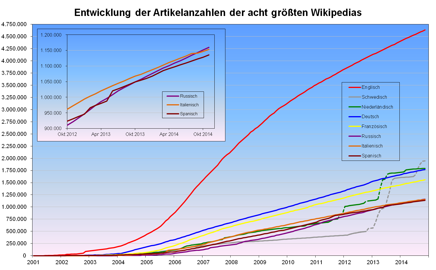 number of articles of the English, Dutch, German, French, Swedish, Italian, Spanish and Russian Wikipedia